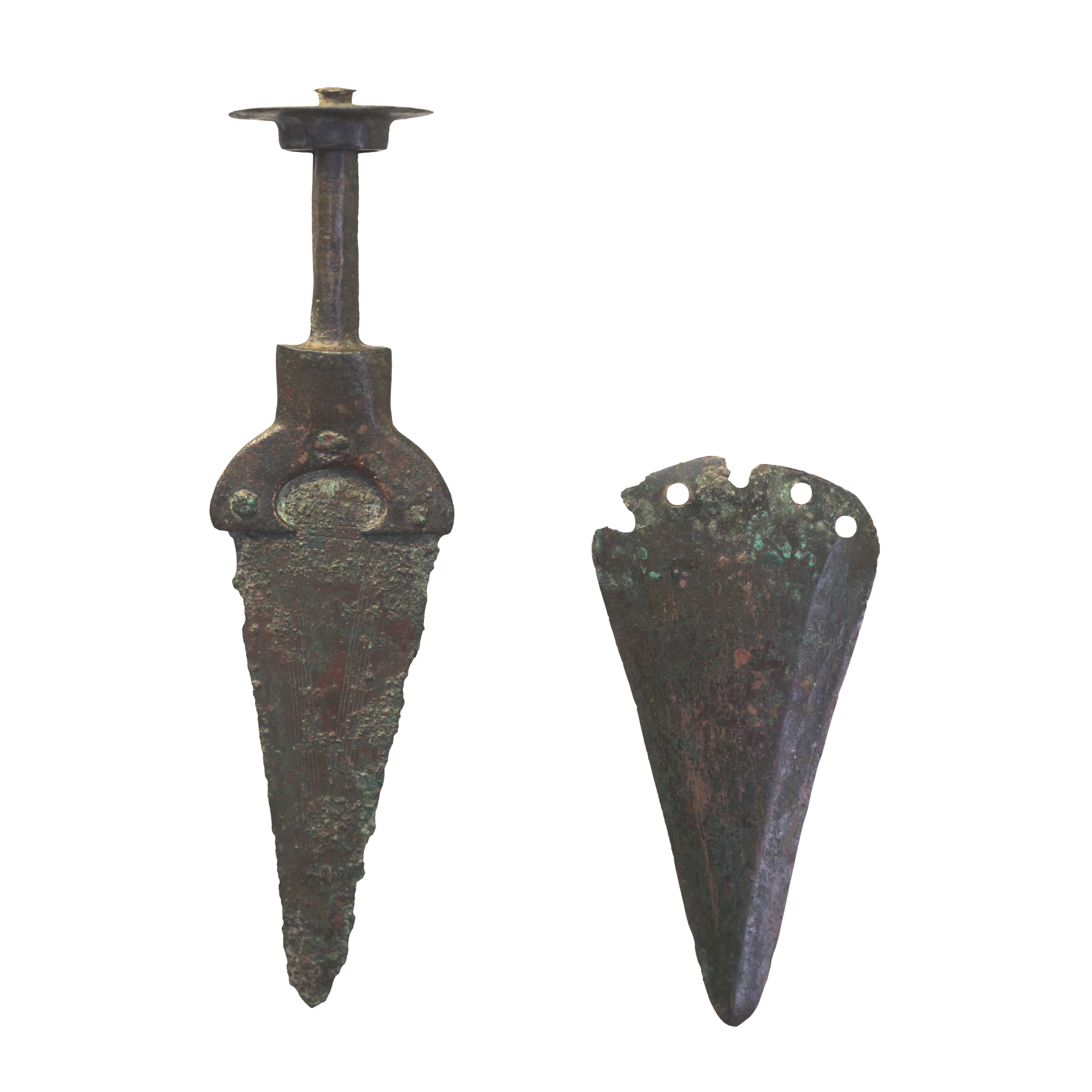 Bronze dagger, ca. 2200-1600 BCE. On display at Sion History museum.